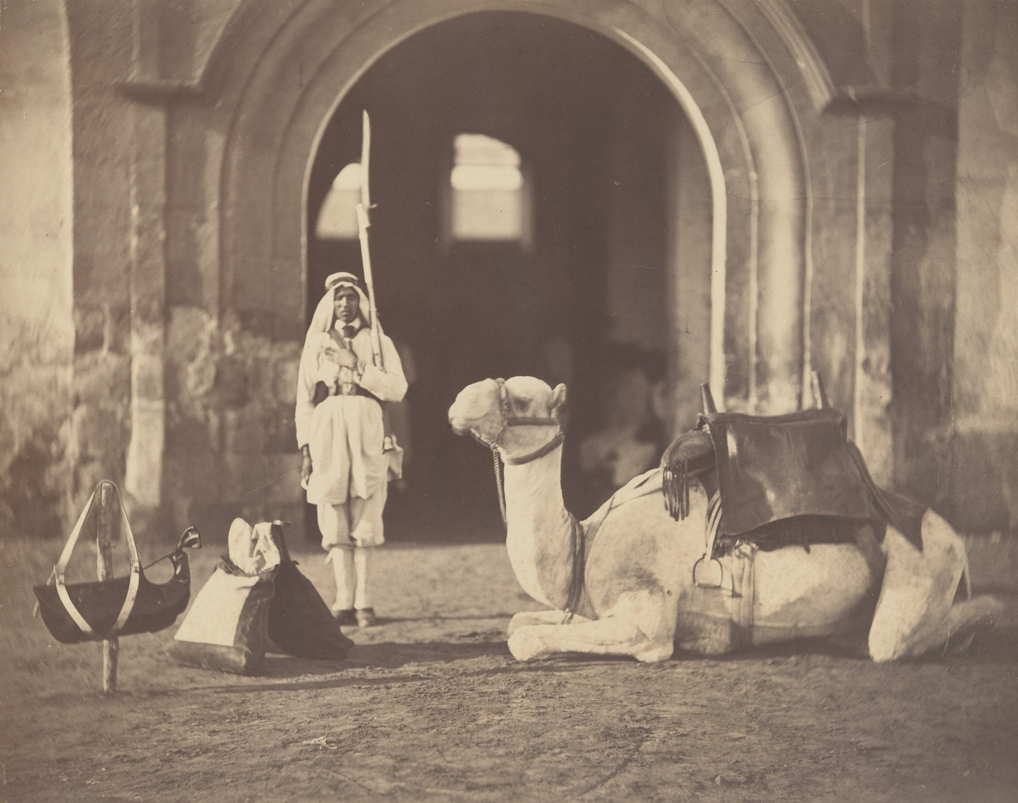 "Though he was the most influential and renowned photographer in France, Gustave Le Gray's expenses had far outpaced his revenues by early 1860. Fleeing his creditors, he closed his Paris studio, abandoned his wife and children, and set off on what was meant to be a few months' cruise on the rivers of Asia aboard Alexandre Dumas's ship Emma. Dumas detoured to Palermo to join Garibaldi, then headed to Malta, where, following an argument, he abandoned Le Gray and two others. Le Gray and his companions made their way east to Cairo, where he set up a studio and enjoyed official commissions from the pasha of Egypt. This photograph is part of Le Gray's first commission, a series depicting a corps of military camels, some outfitted with artillery, soon to be dispatched to a campaign in the Sudan. Despite a subject matter radically different from any he had tackled before, the image is marked by the artist's eye for telling detail and grand sense of theatricality. Camel, soldier, and equipment are spread across the page, as if on stage before a painted backdrop, ready to take their places in an updated production of Aida." Source of the description